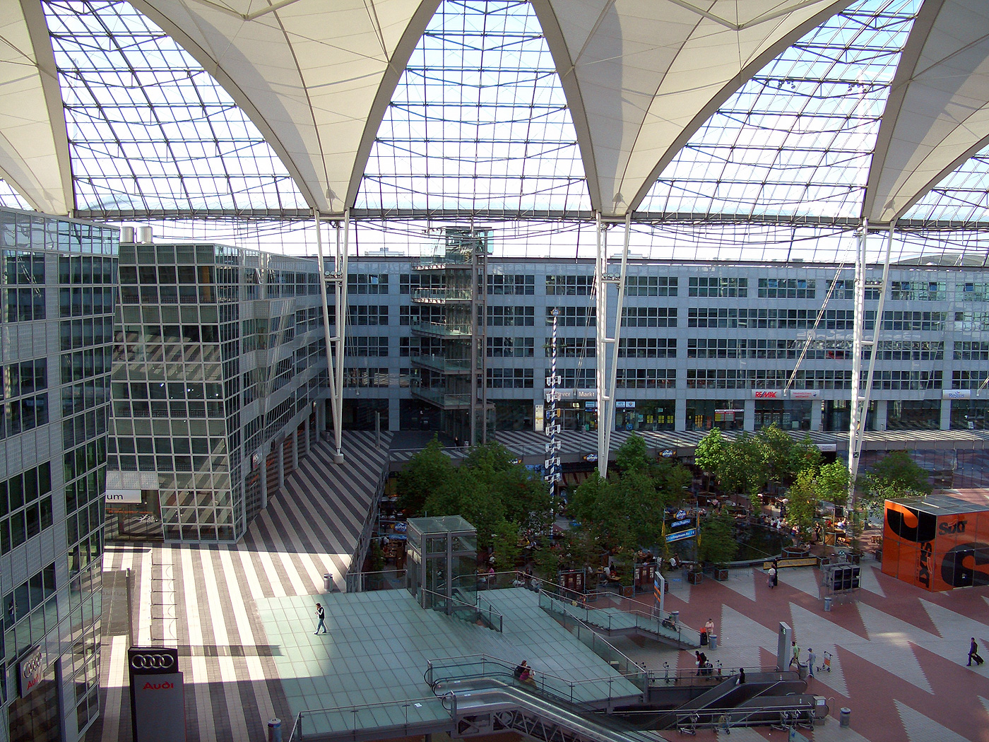 Munich Airport (MUC) Central Area with office buildings, stores and a "Biergarten", located between Terminal 1 (100m to the left side) and Terminal 2 (30m to the right side). Direct access to the Local Train Station via the stairways. Picture found at its author: Line5 e.K.